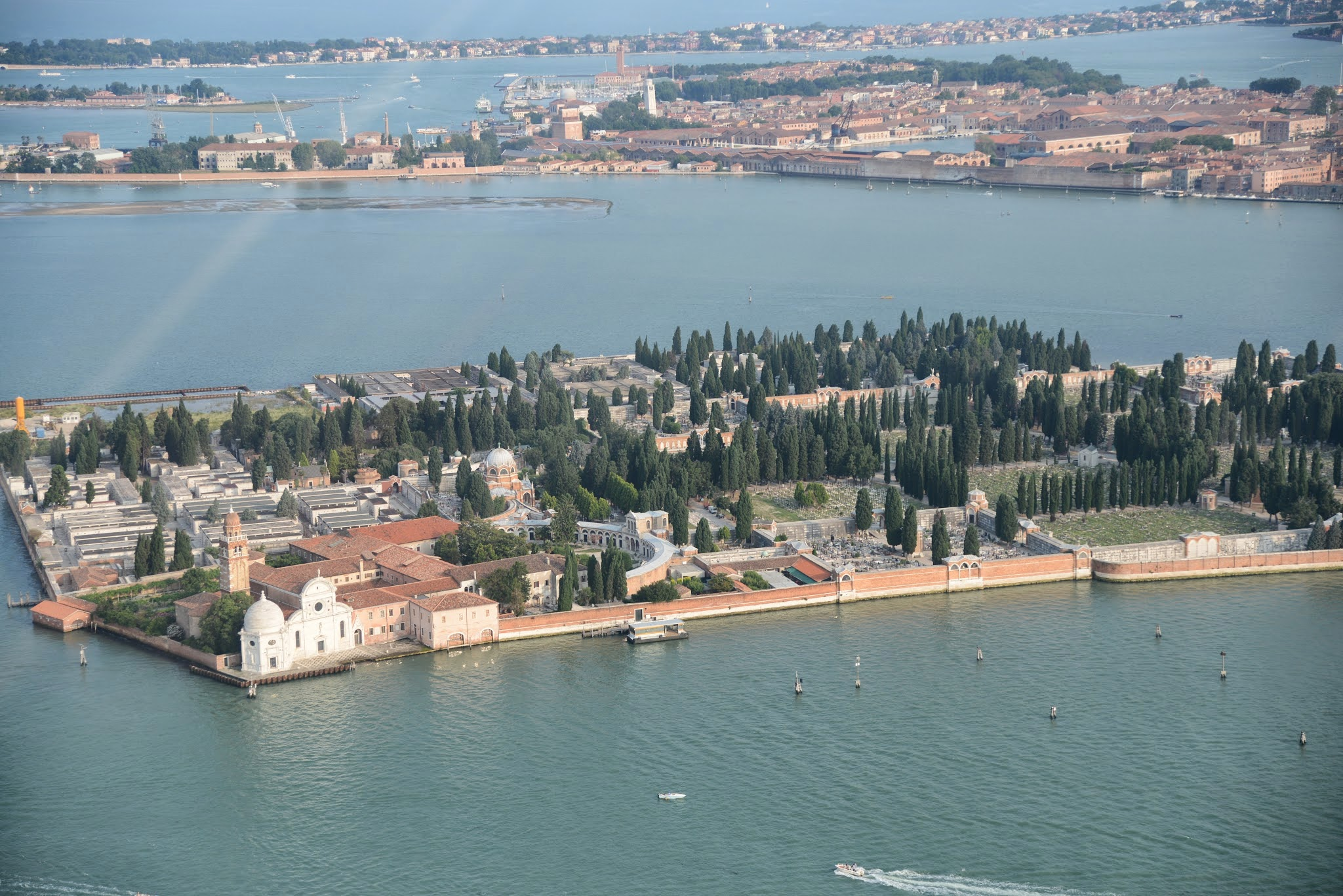 Aerial photographs of Venice